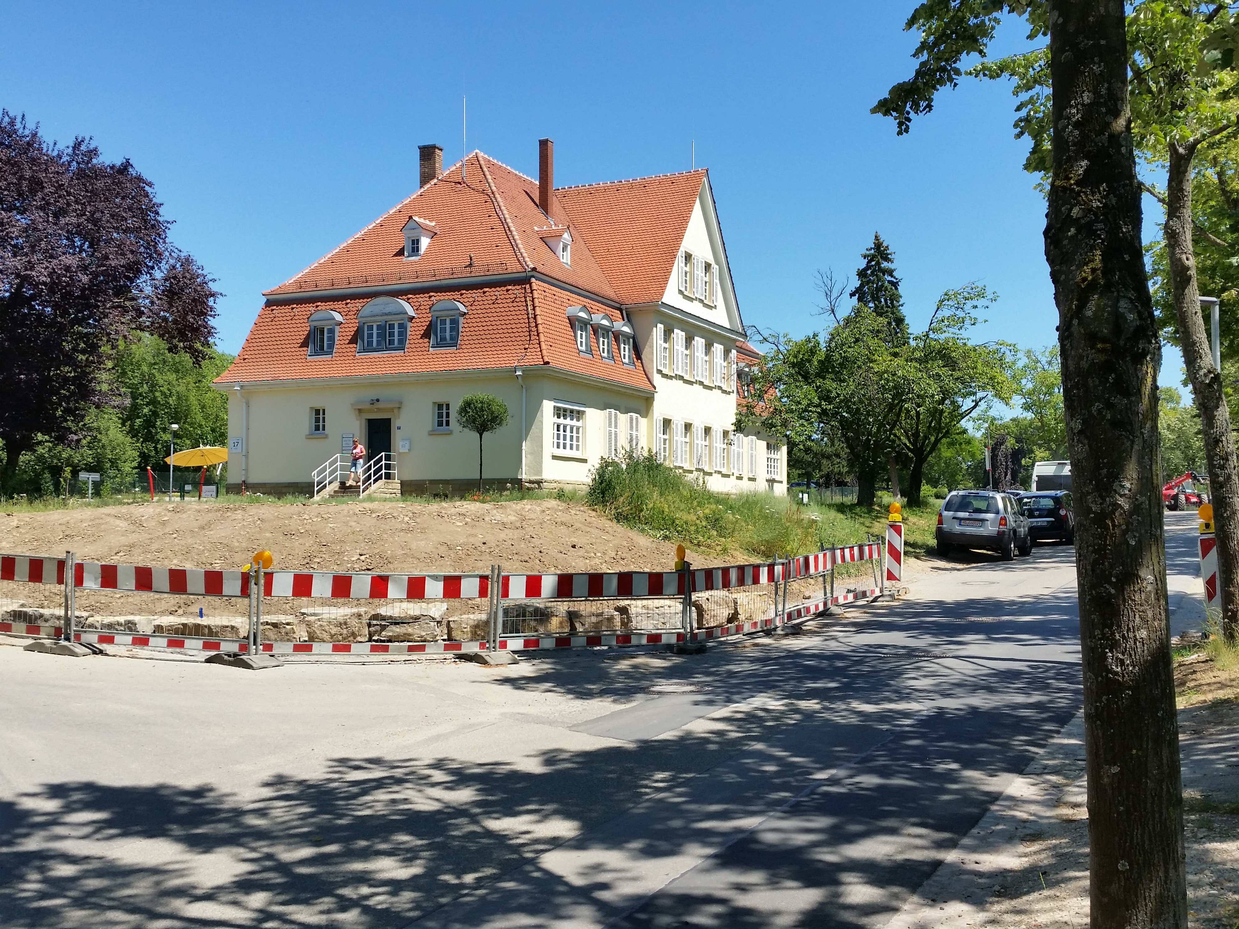 Psychiatrisches Zentrum Nordbaden (PZN) in Wiesloch, Baden-Württemberg. Psychiatric Center in Wiesloch, Baden-Württemberg, South-East Germany.